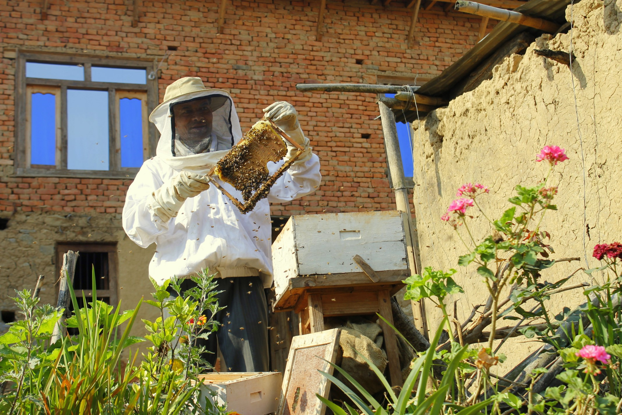 Bee man